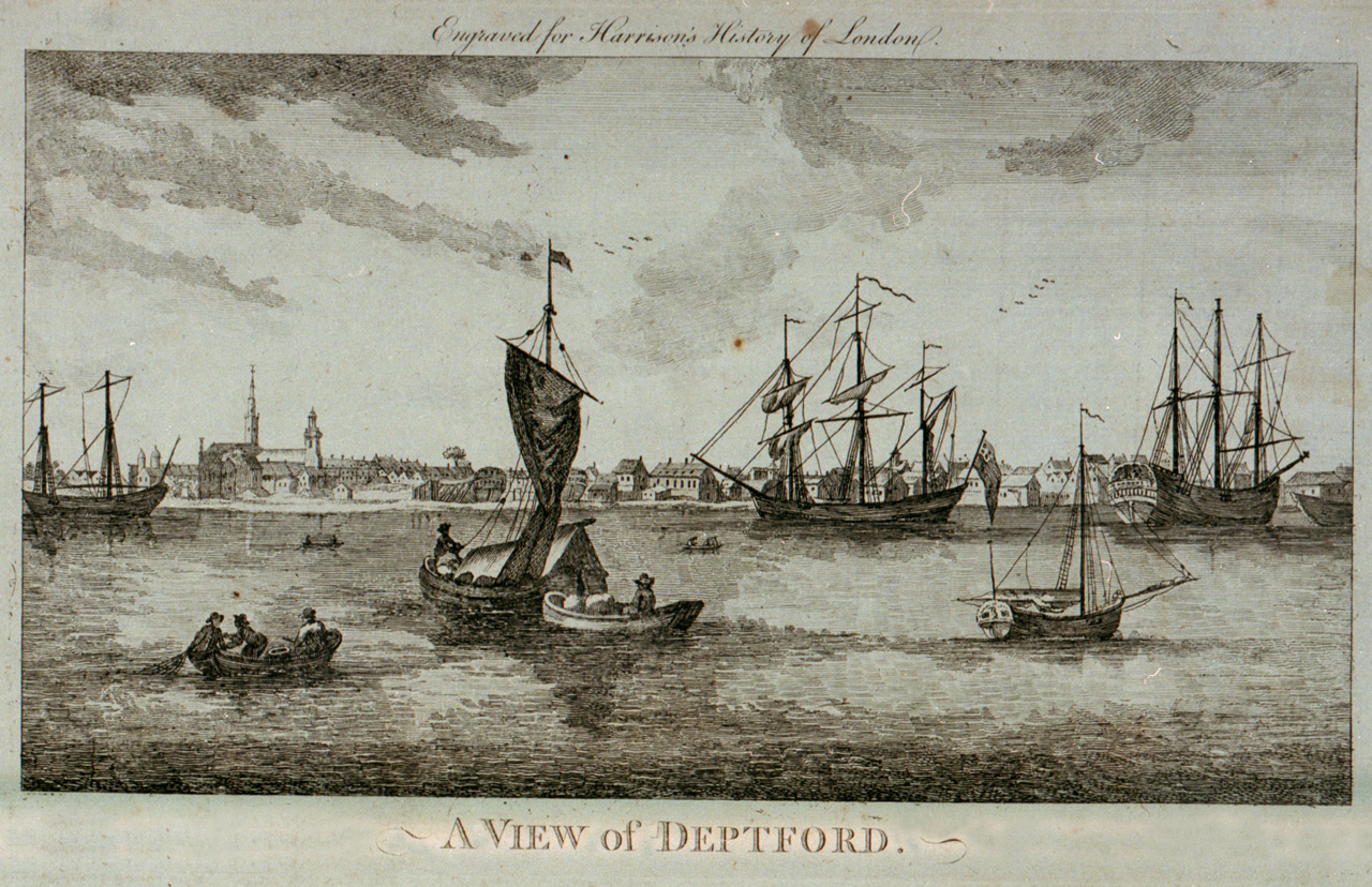 Engraving of Deptford Dockyard, United Kingdom, depicting small craft at sea.